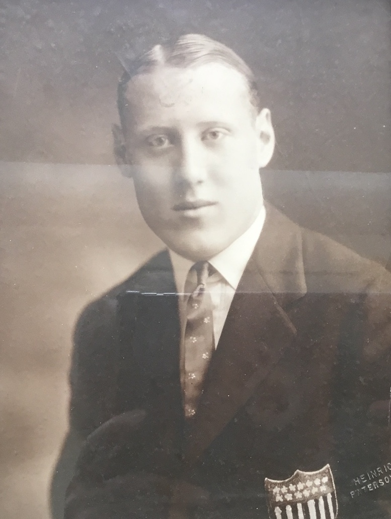 John Oliver Macdonald in his Olympic jacket, photo taken 1924